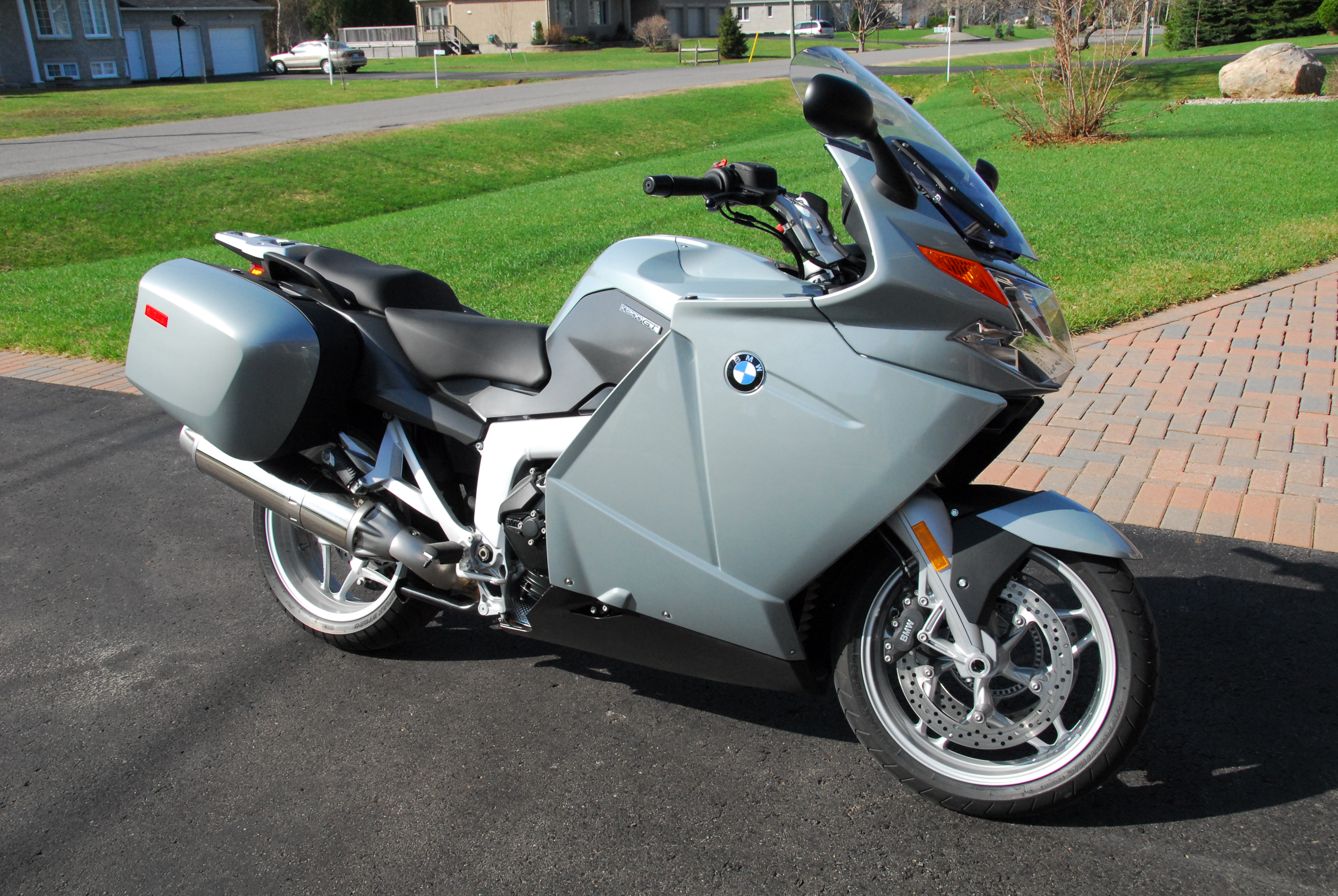 Battleship grey BMW K1200GT